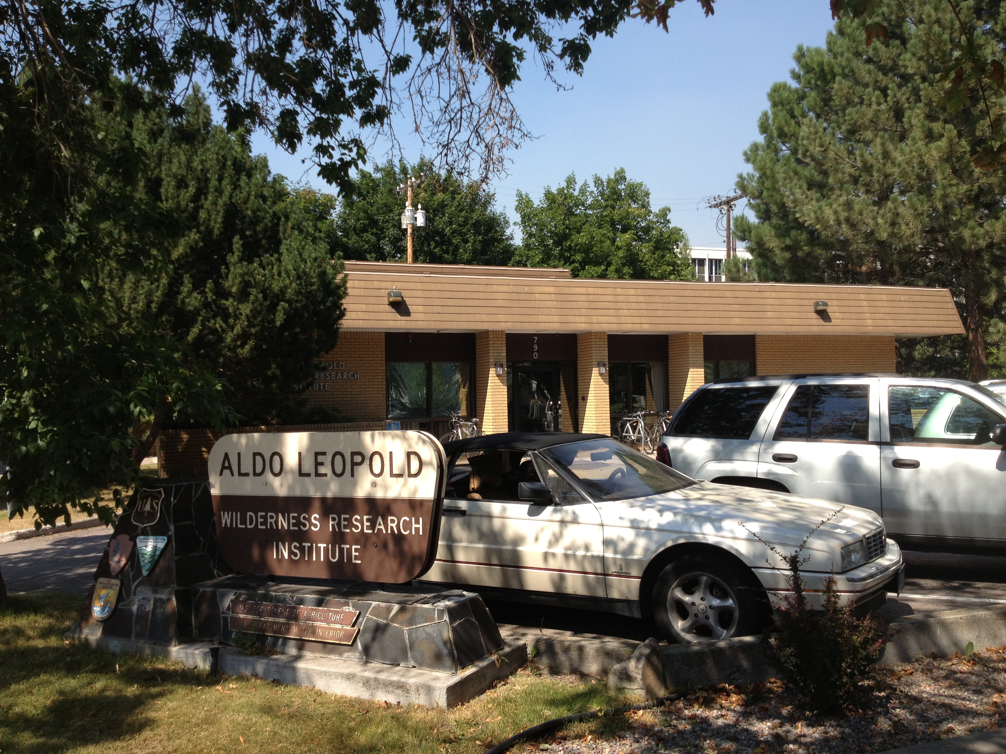 Aldo Leopold Wilderness Research Institute, University of Montana Missoula, July 25, 2013.